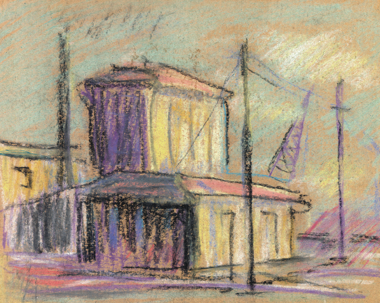 M. Schultz. Hot Evening. 1986. Pastel